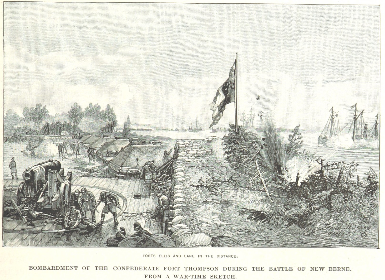 During the Battle of New Bern in 1862, Union ships bombard Confederate Fort Thompson.